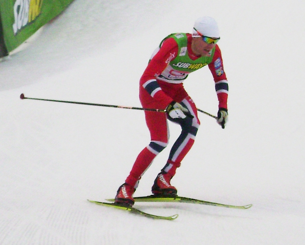 Norwegian nordic combined skier Håvard Klemetsen at Lahti Ski Games 2014.